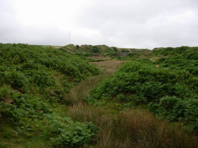 Earthworks in a valley. Caused by early tin workings in the valley bottom deposits - before more advanced techniques were employed.